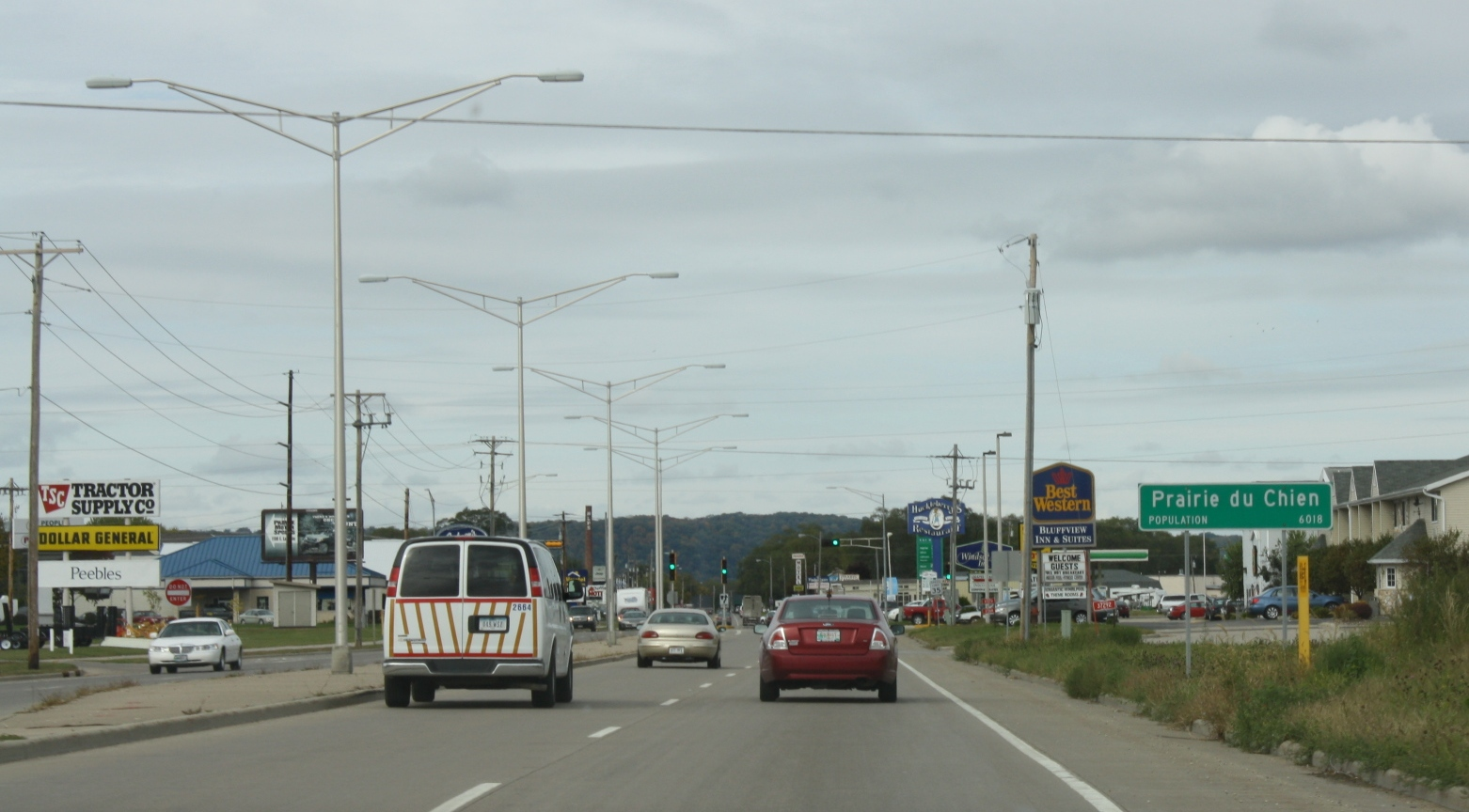 Looking north at the welcome sign for Prairie du Chien, Wisconsin on U.S. Route 18 / Wisconsin Highway 35.